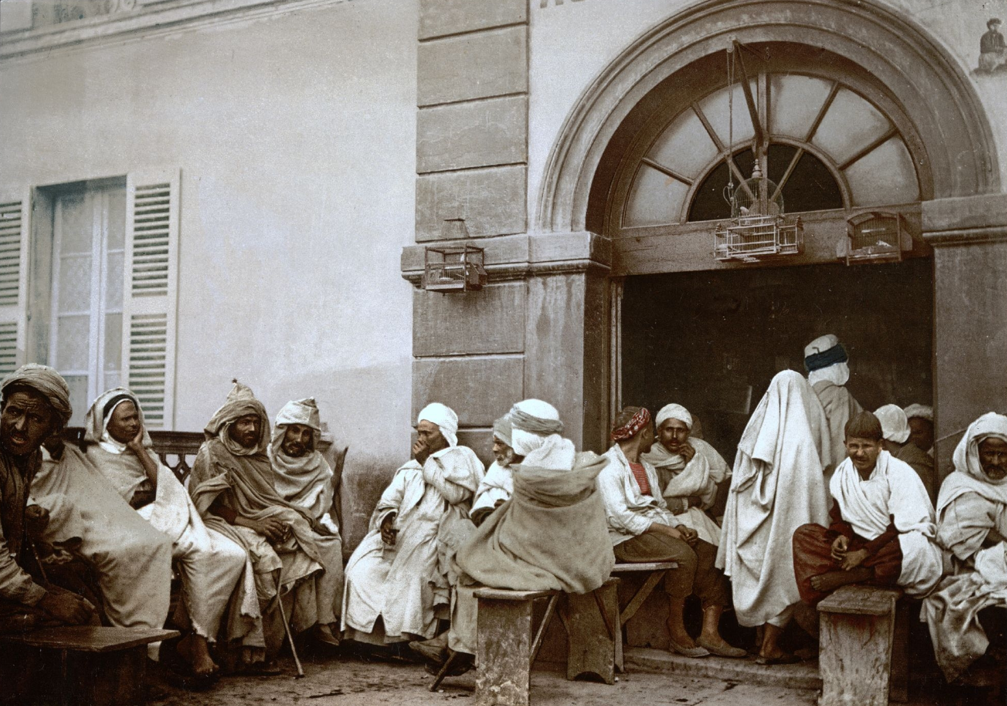 Algerian people at a cafe in Algiers (Algeria, 1899).